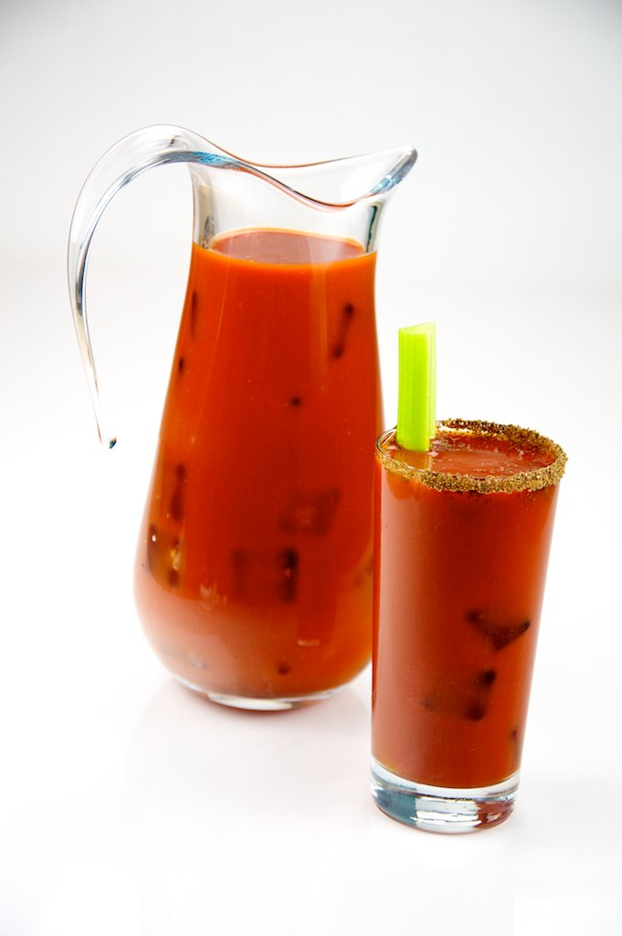 Bloody Mary Coctail with celery stalk and pitcher.